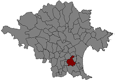 Location of Torroella de Fluvià in Alt Empordà